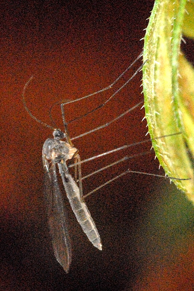 Picture taken in Commanster, Belgian High Ardennes . Species: Bolitophila (Bolitophila) cinerea